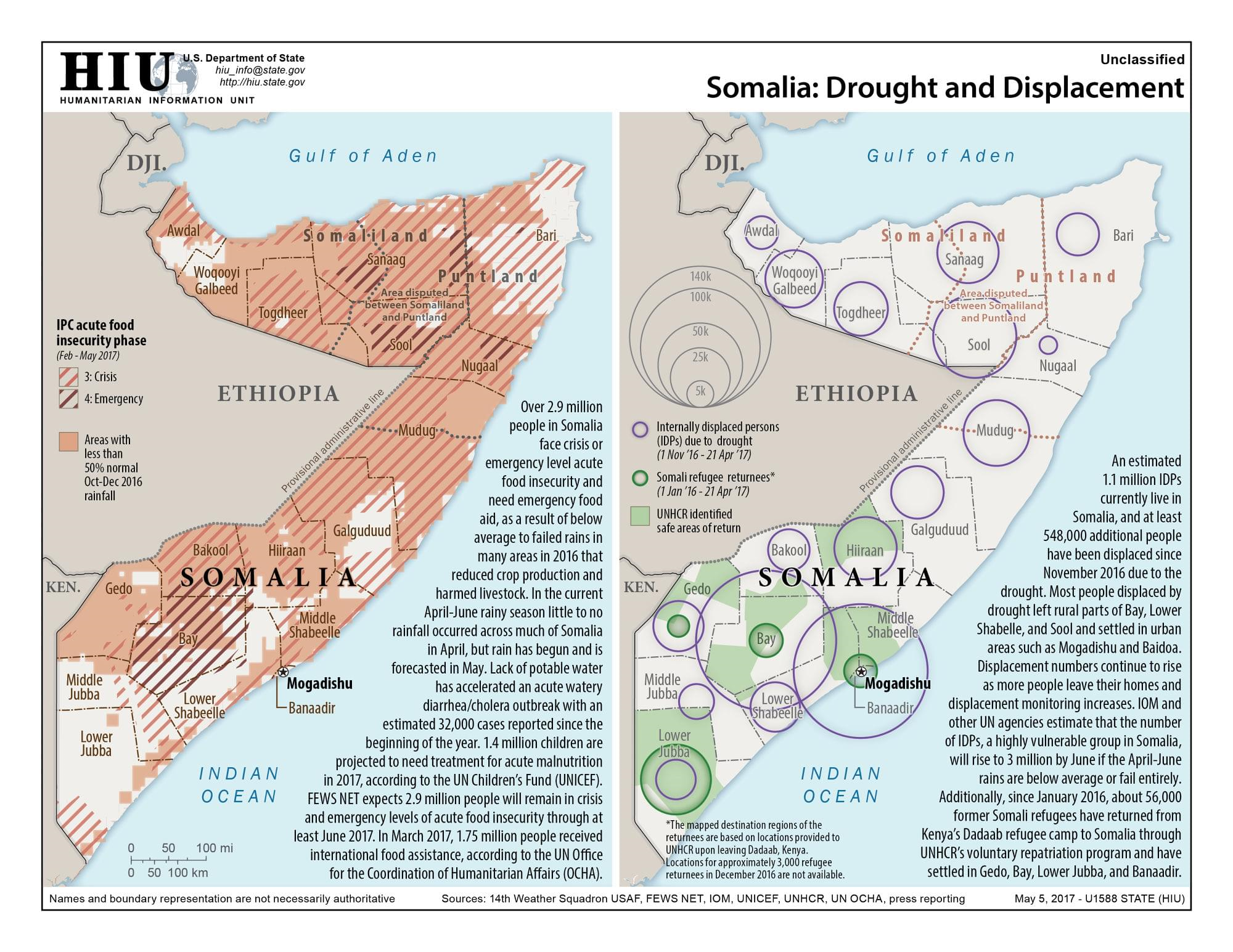 Over 2.9 million people in Somalia face crisis or emergency level acute food insecurity and need emergency food aid, as a result of below average to failed rains in many areas in 2016 that reduced crop production and harmed livestock. In the current April-June rainy season little to no rainfall occured across much of Somalia in April, but rain has begun and is forecasted in May. Lack of potable water has accelerated an acute watery diarrhea/cholera outbreak with an estimated 32,000 cases reported since the beginning of the year. 1.4 million children are projected to need treatment for acute malnutrition in 2017, according to the UN Children's Fund (UNICEF). FEWS NET expects 2.9 million people will remain in crisis and emergency levels of acute food insecurity through at least June 2017. In March 2017, 1.75 million people received international food assistance, according to the UN Office for the Coordination of Humanitarian Affairs. (OCHA) An estimated 1.1 million IDPs currently live in Somalia, and at least 548,000 additional people have been displaced since November 2016 due to the drought. Most people displaced by drought left rural parts of Bay, Lower Shabelle, and Sool and settled in urban areas such as Mogadishu and Baidoa. Displacement numbers continue to rise as more people leave their homes and displacement monitoring increases. IOM and other UN agencies estimate that the number of IDPs, a highly vulnerable group in Somalia, will rise to 3 million by June if the April-June rains are below average or fail entirely. Additionally, since January 2016, about 56,000 former Somali refugees have returned from Kenya's Dadaab refugee campt to Somalia through UNHCR's voluntary repatriation porgram and have settled in Gedo, Bay, Lower Jubba, and Banaadir.